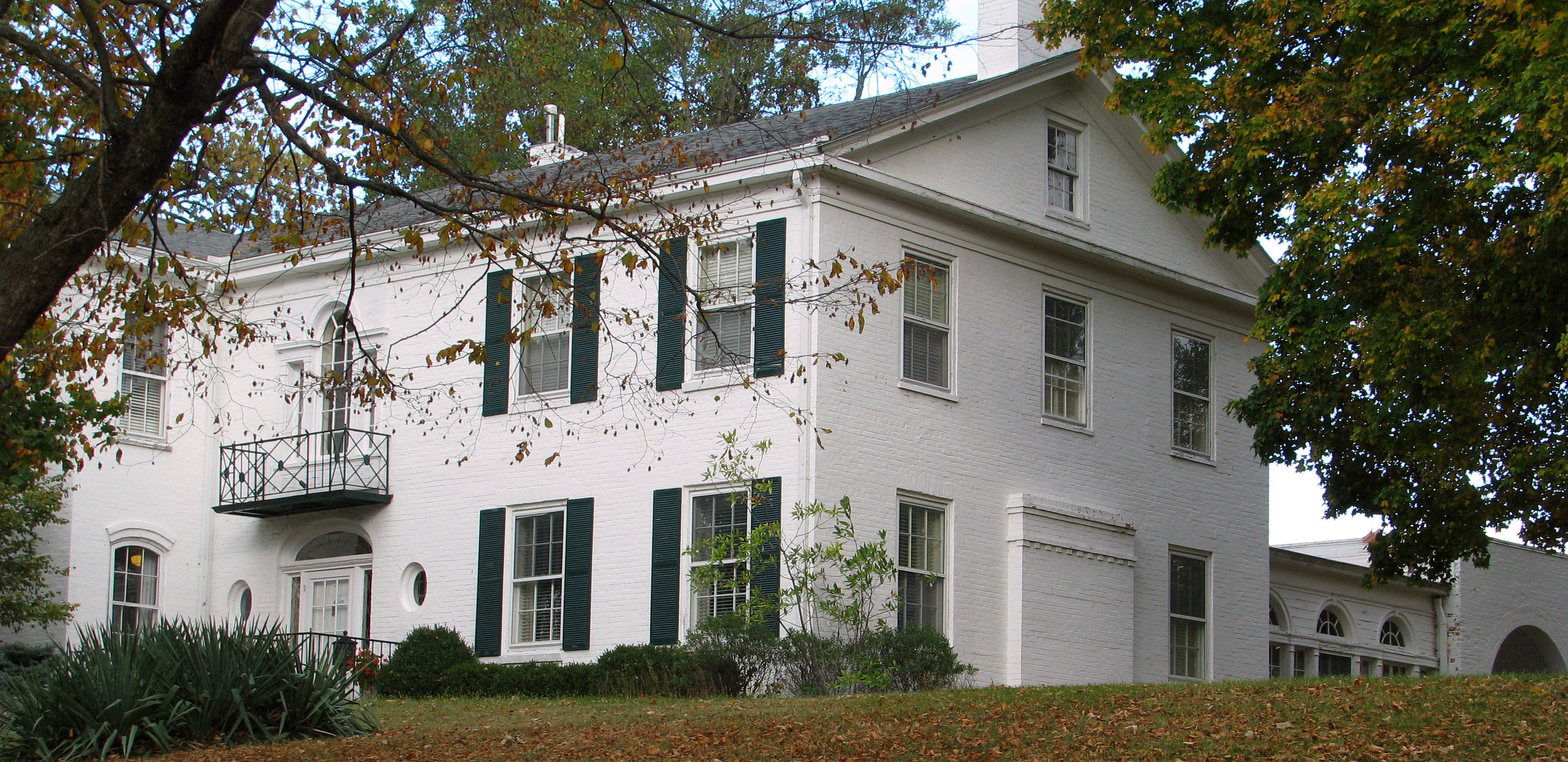 Photo I took